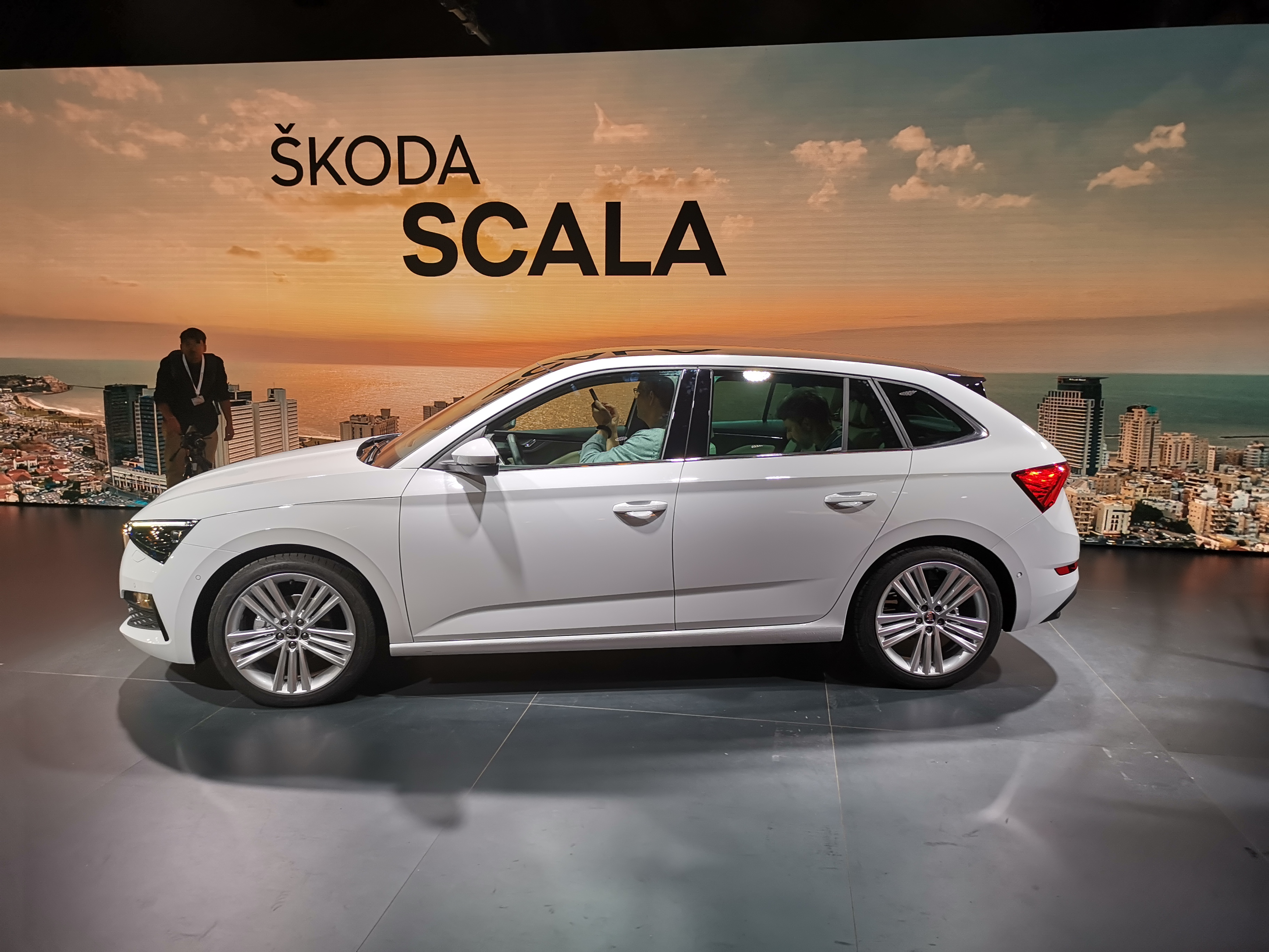 Škoda Scala during the presentation in Tel Aviv, 2018